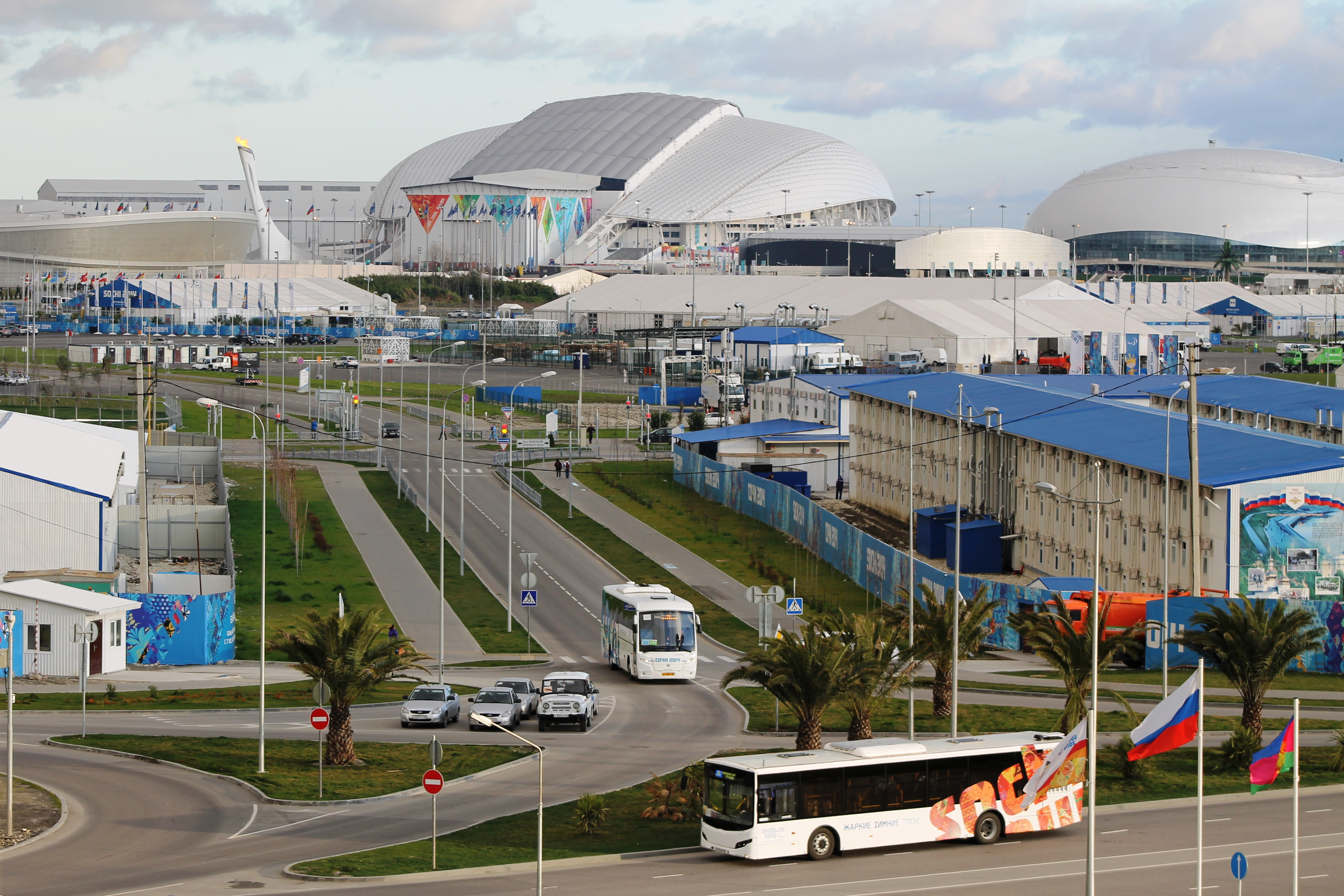 Panoramic view of the Olympic 2014 facilities in the Sochi Olympic Park during Winter Olympic Games. Imereti lowland in the Adler district of the city of Sochi. Mars 2014